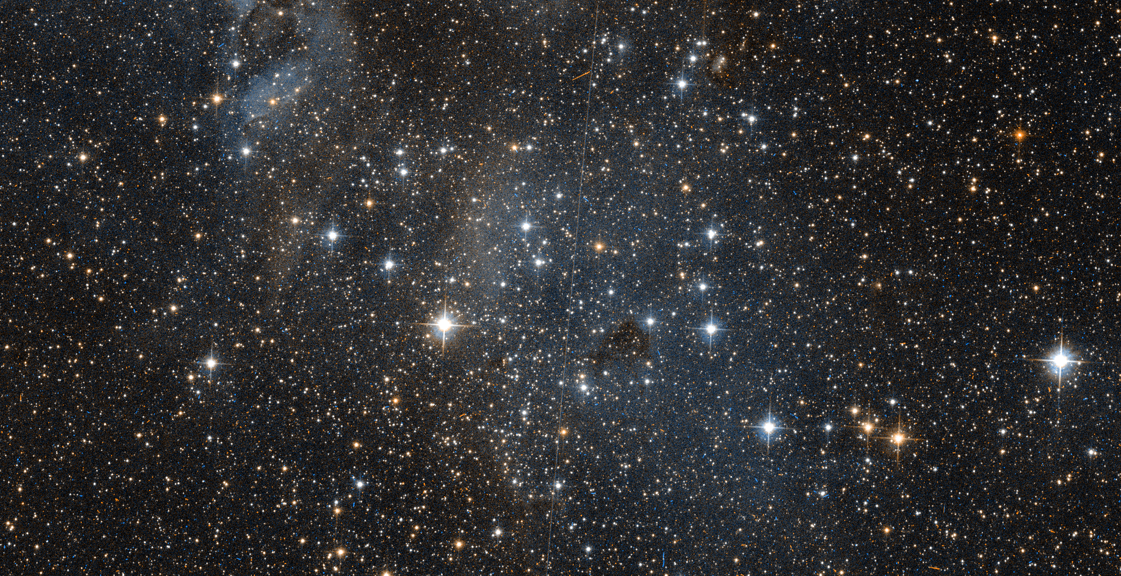 Color rendering is done by by Aladin-software (2000A&AS..143...33B.)